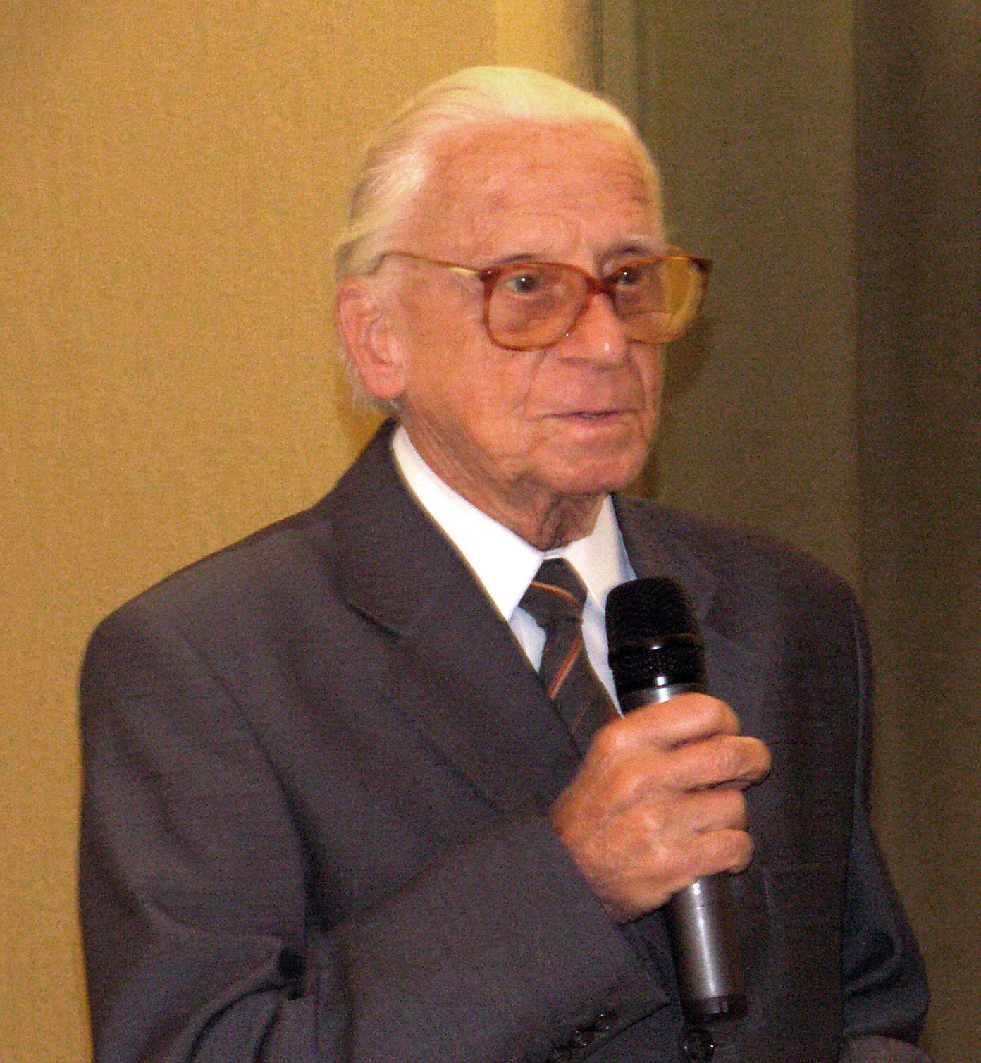 Aurel Thewrewk Ponori, hungarian astronomer, writer and poet.